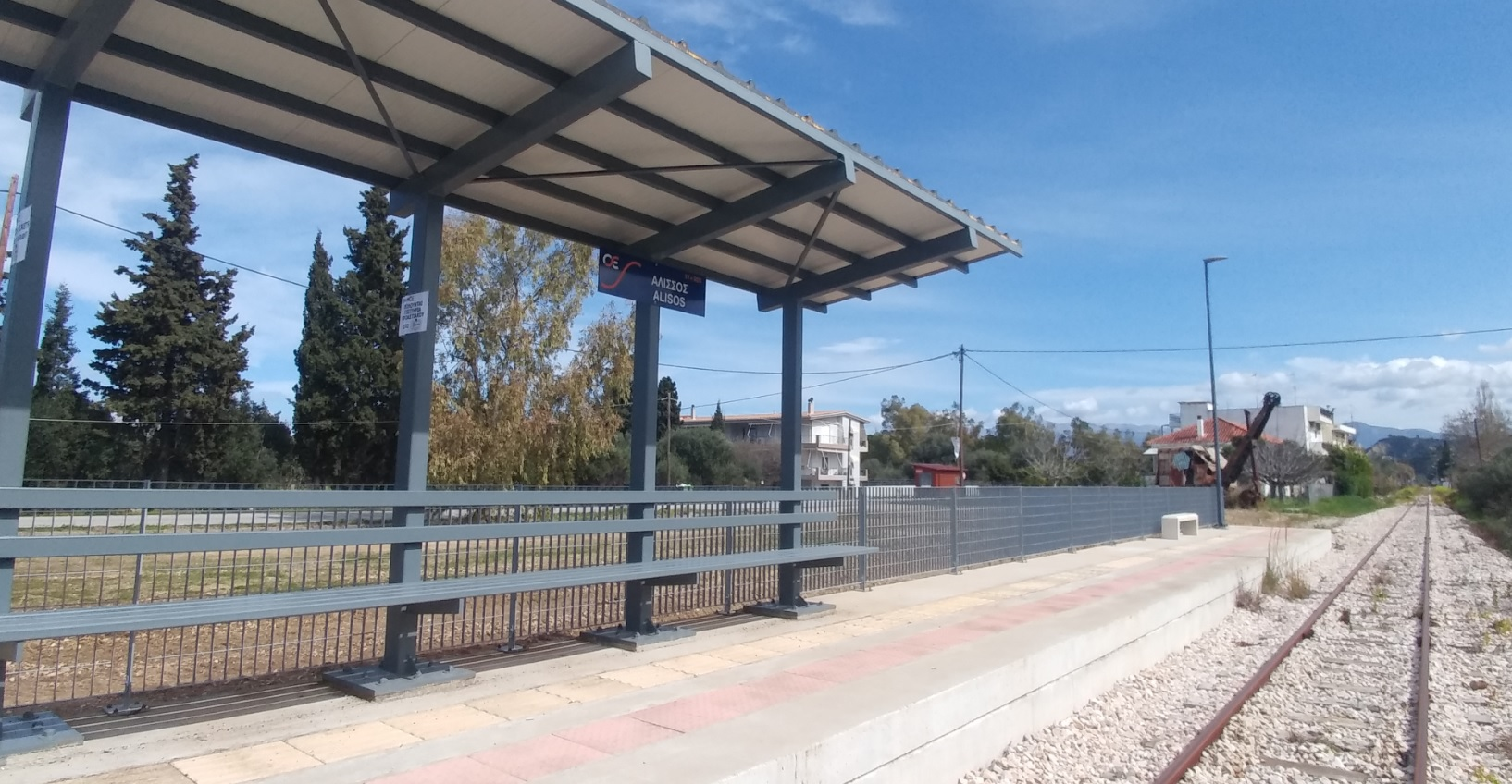 Patras' Suburban Railway "Alissos" Station.